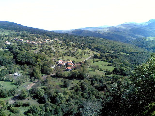 View of Soba valley from the viewpoint of La Gándara